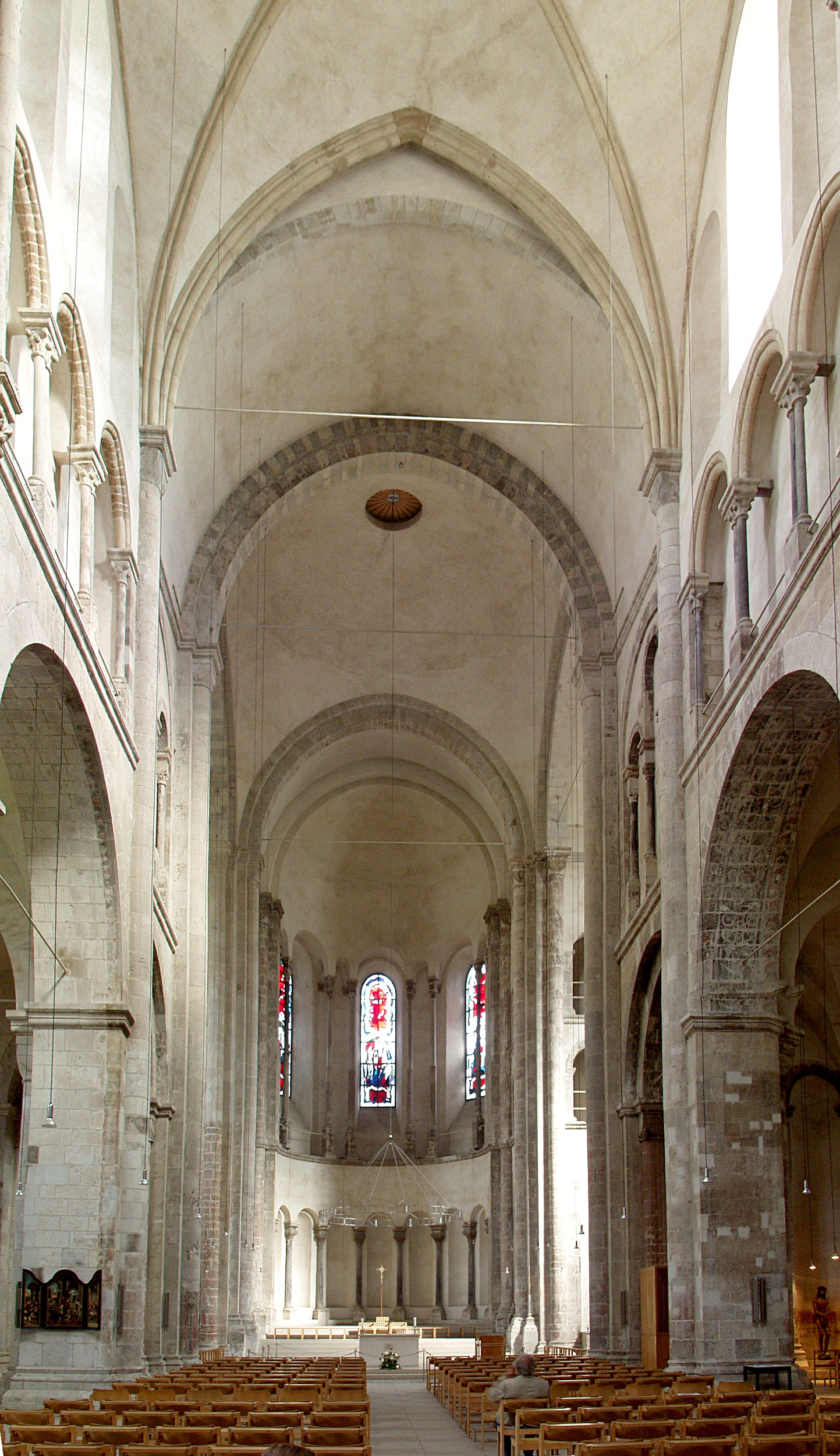 View through the main nave to the eastern apside of Groß St. Martin, Cologne